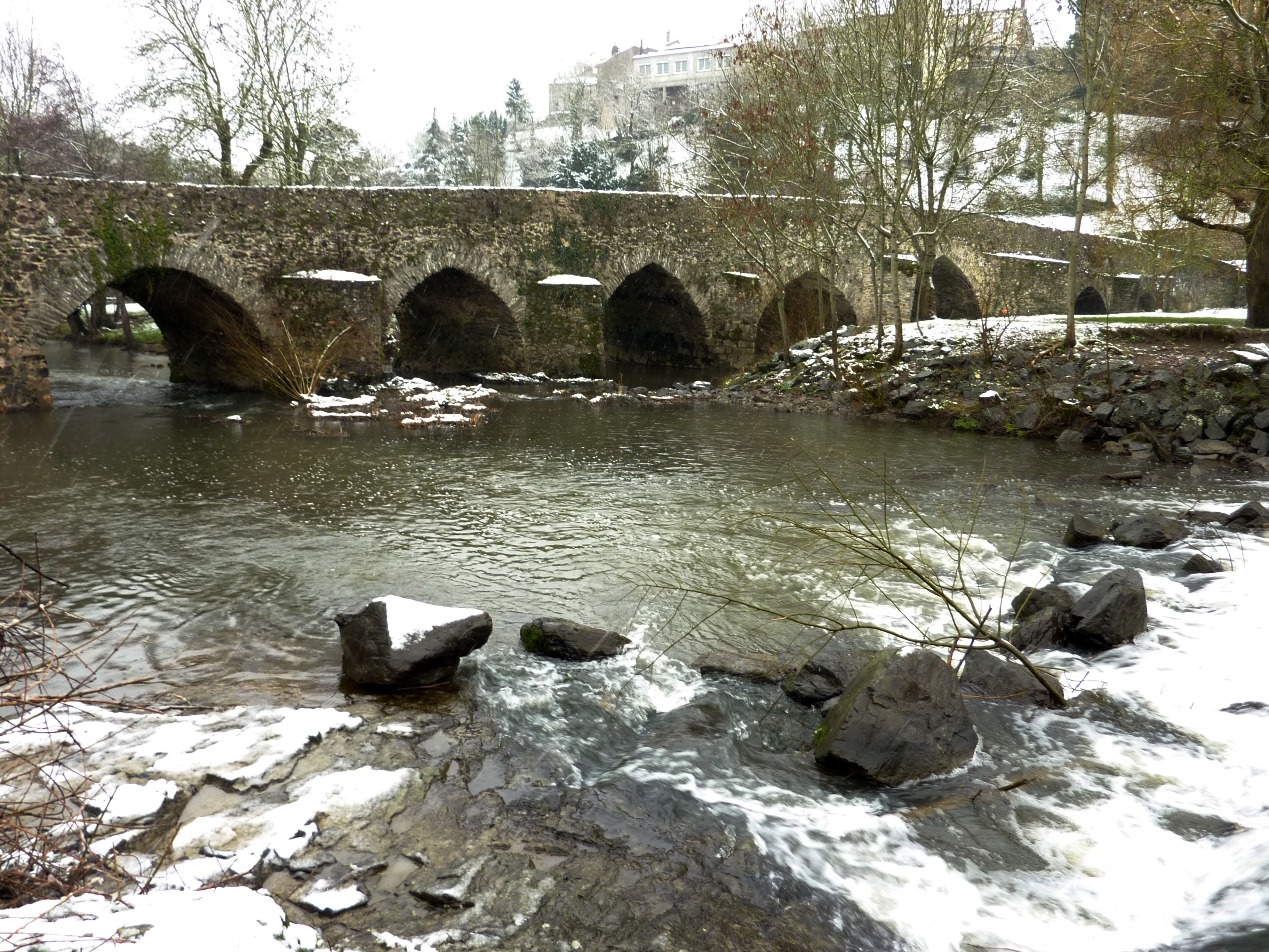 The Bohardy Bridge over the Èvre River in Montrevault, Maine-et-Loire (49)